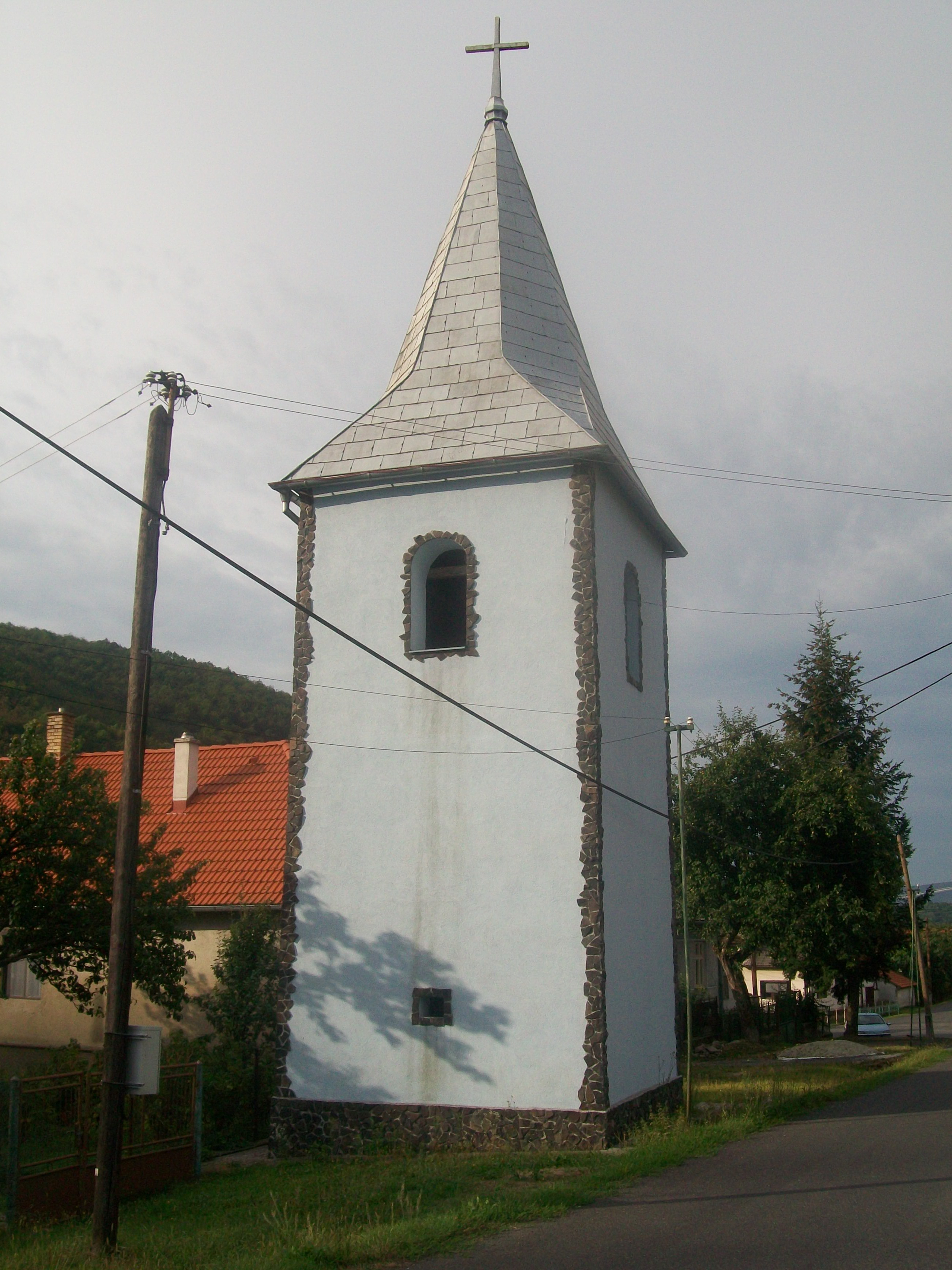 Belfry in the village KotmanováSlovenčina: Zvonica v obci Kotmanová